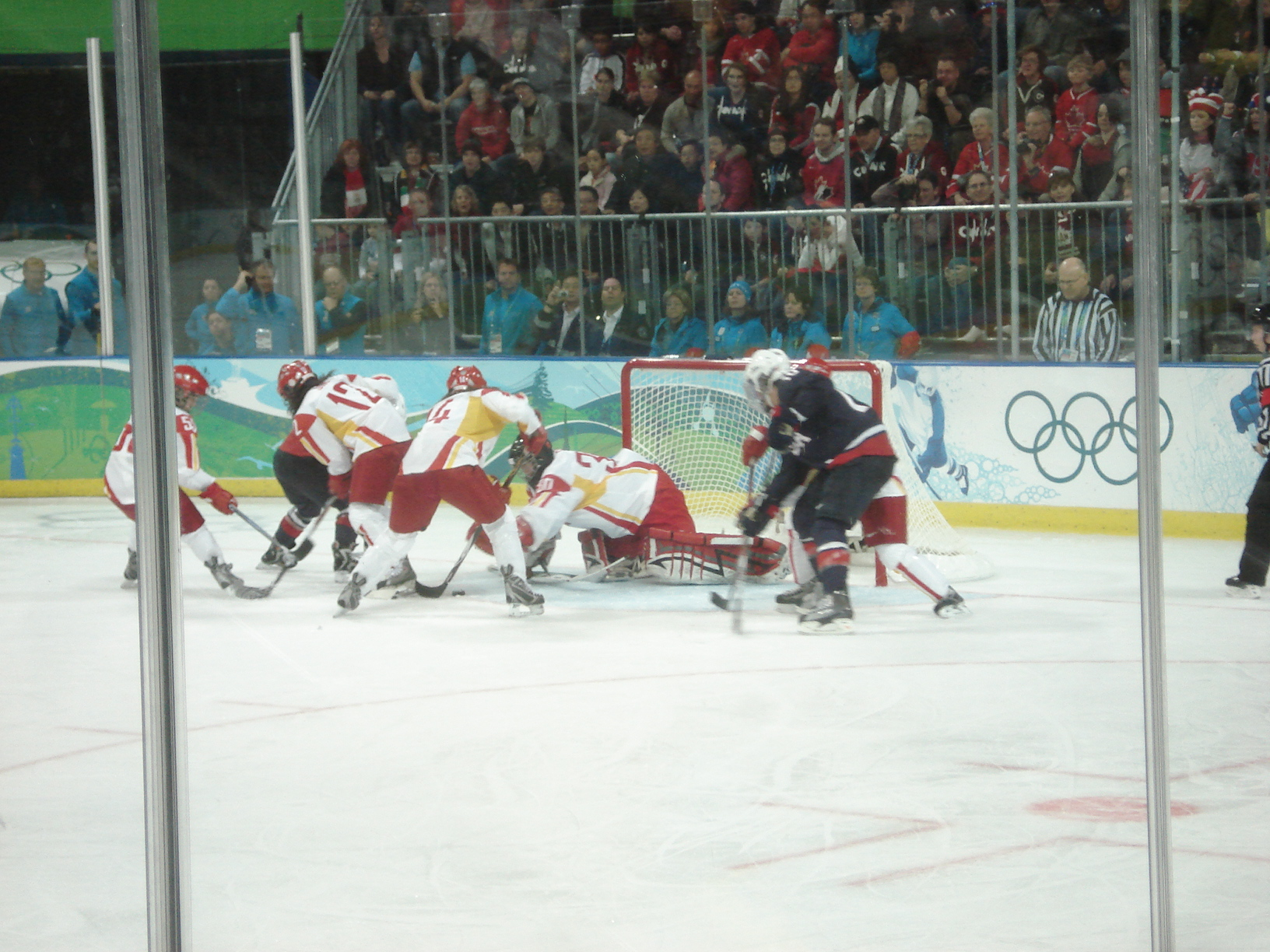 China's goalie dives to make a save against the US team in Women's hockey at the 2010 Winter Olympics in Vancouver. The US won 12-1.